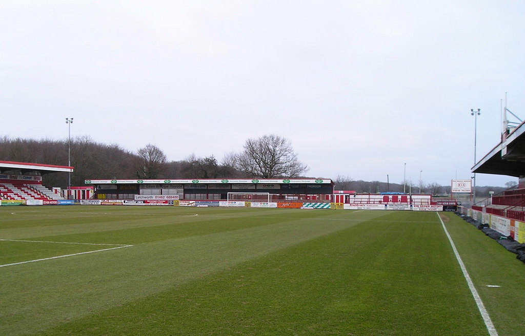 Broadhall Way, Stevenage Borough Football Club, near to Stevenage, Hertfordshire, Great Britain.